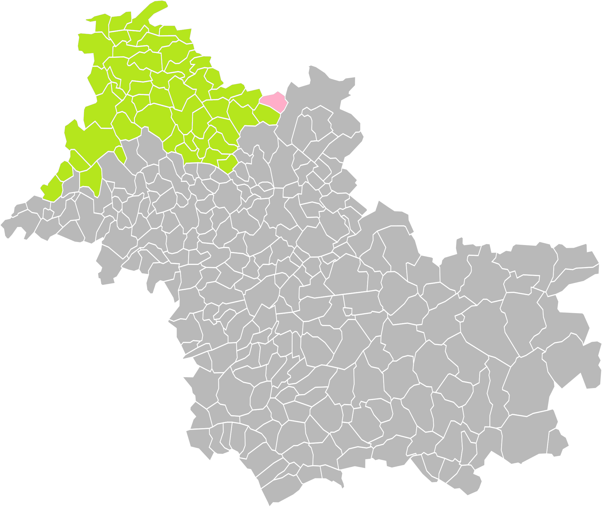 Location of the commune of Ouzouer-le-Doyen in the canton of Le Perche(Loir-et-Cher)